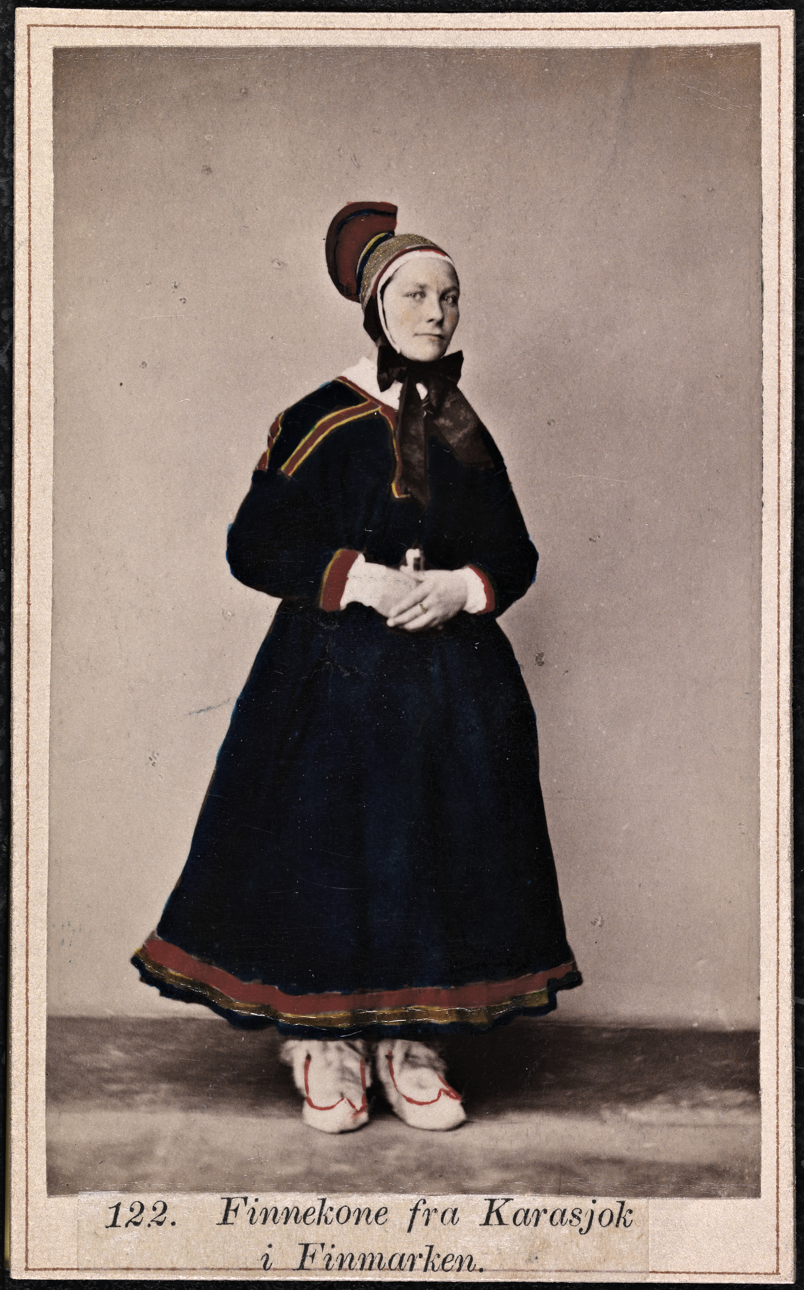 Beskrivelse / Description: Drakt fra Karasjok (Finnmark). Visittkort / Carte de visite. Dato / Date: ca. 1860-1870 Fotograf / Photographer: Marcus Selmer (1819-1900) Digital kopi av original / Digital copy of original: s/h papirpositiv, visittkort, kolorert Eier / Owner Institution: Nasjonalbiblioteket / National Library of Norway Lenke / Link: Bildesignatur / Image Number: bldsa_FA0552